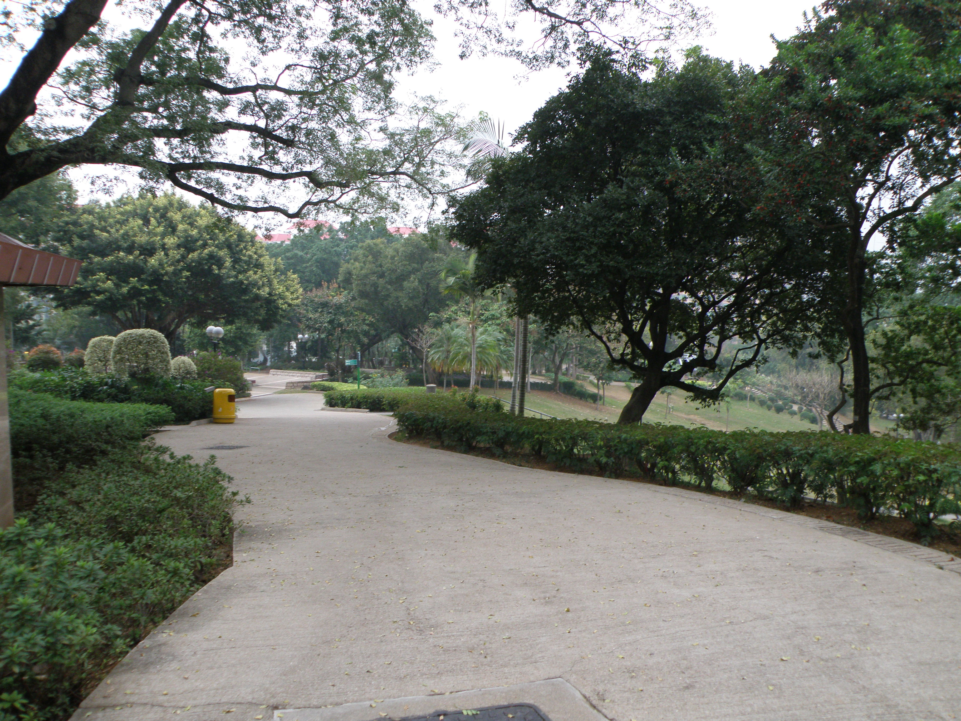 Yuen Long Park in Yuen Long, Hong Kong.